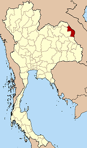 Map of Thailand highlighting Nakhon Phanom province